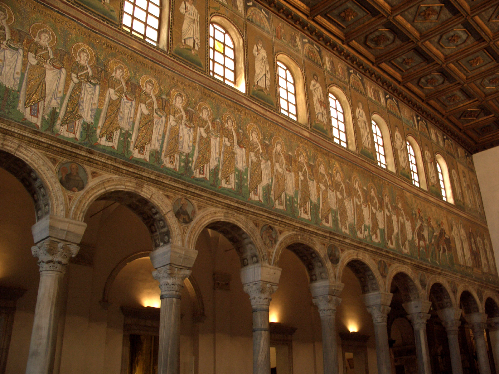 Main nave of the byzantine basilica of Sant'Apollinare Nuovo in Ravenna, Italy.